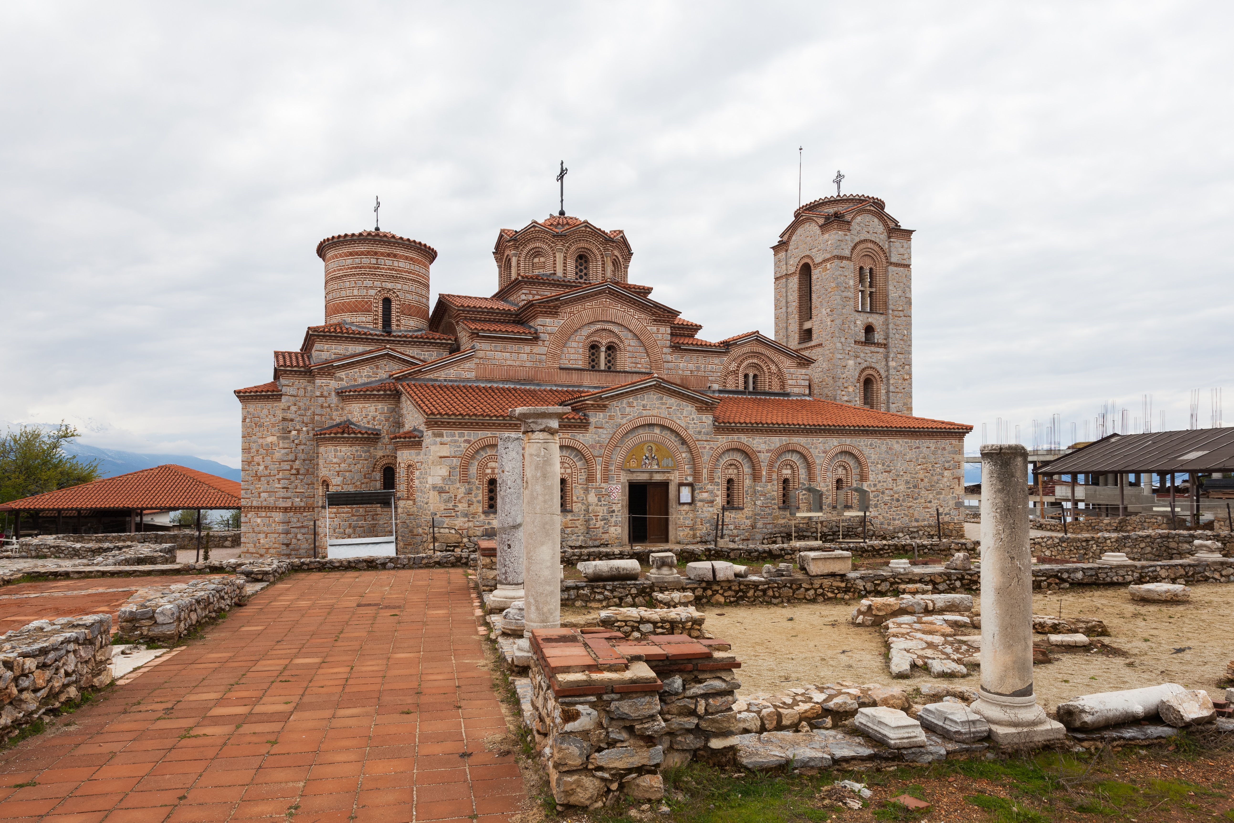 St Panteleimon church, Ohrid, Macedonia